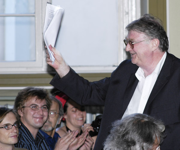 Prof. Dr. Frank Deppe